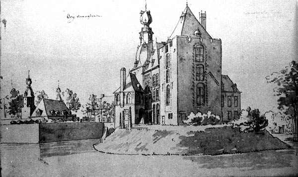 Castle Ooij, southside by Cornelis Pronk